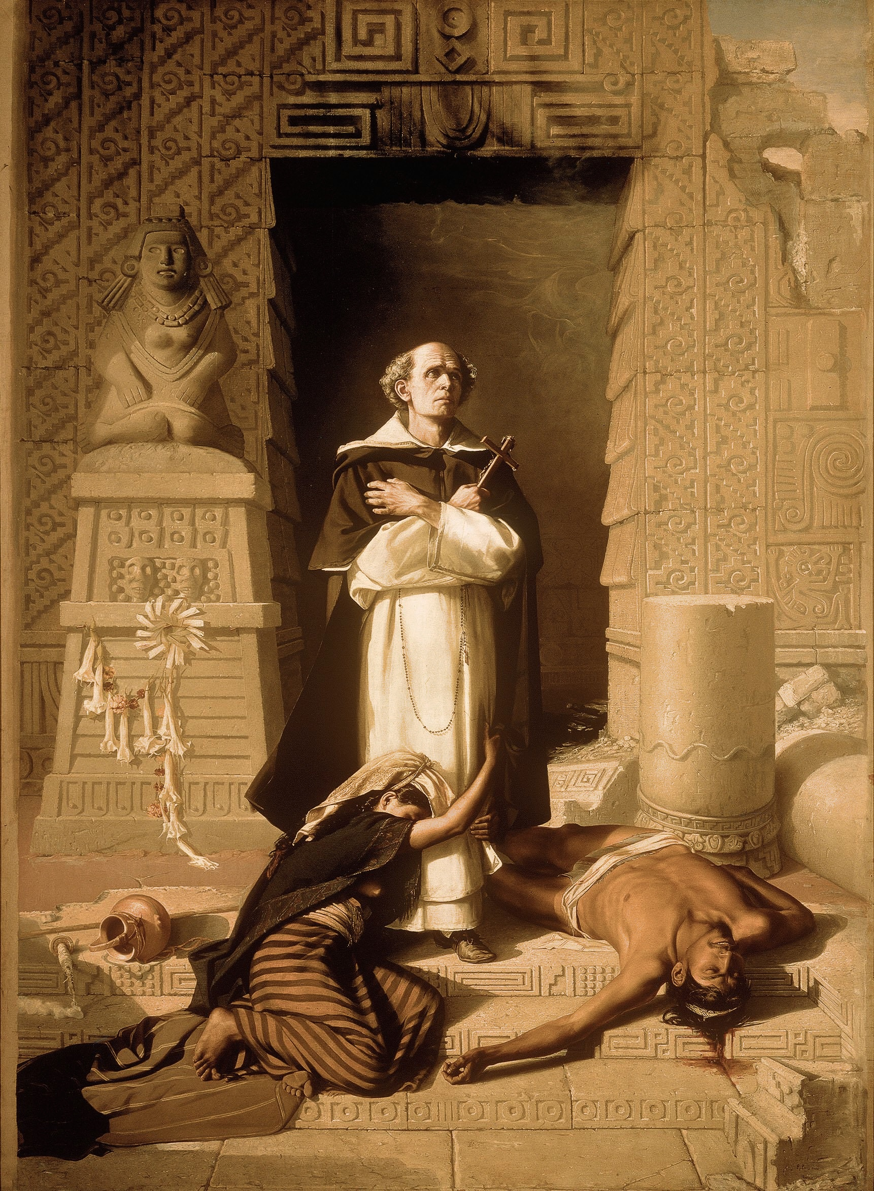 "Fray Bartolomé de las Casas" by Felix Parra (1845-1919) done in 1875 on display at the Museo Nacional de Arte in Mexico City